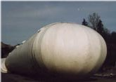 Spragg Bag air test